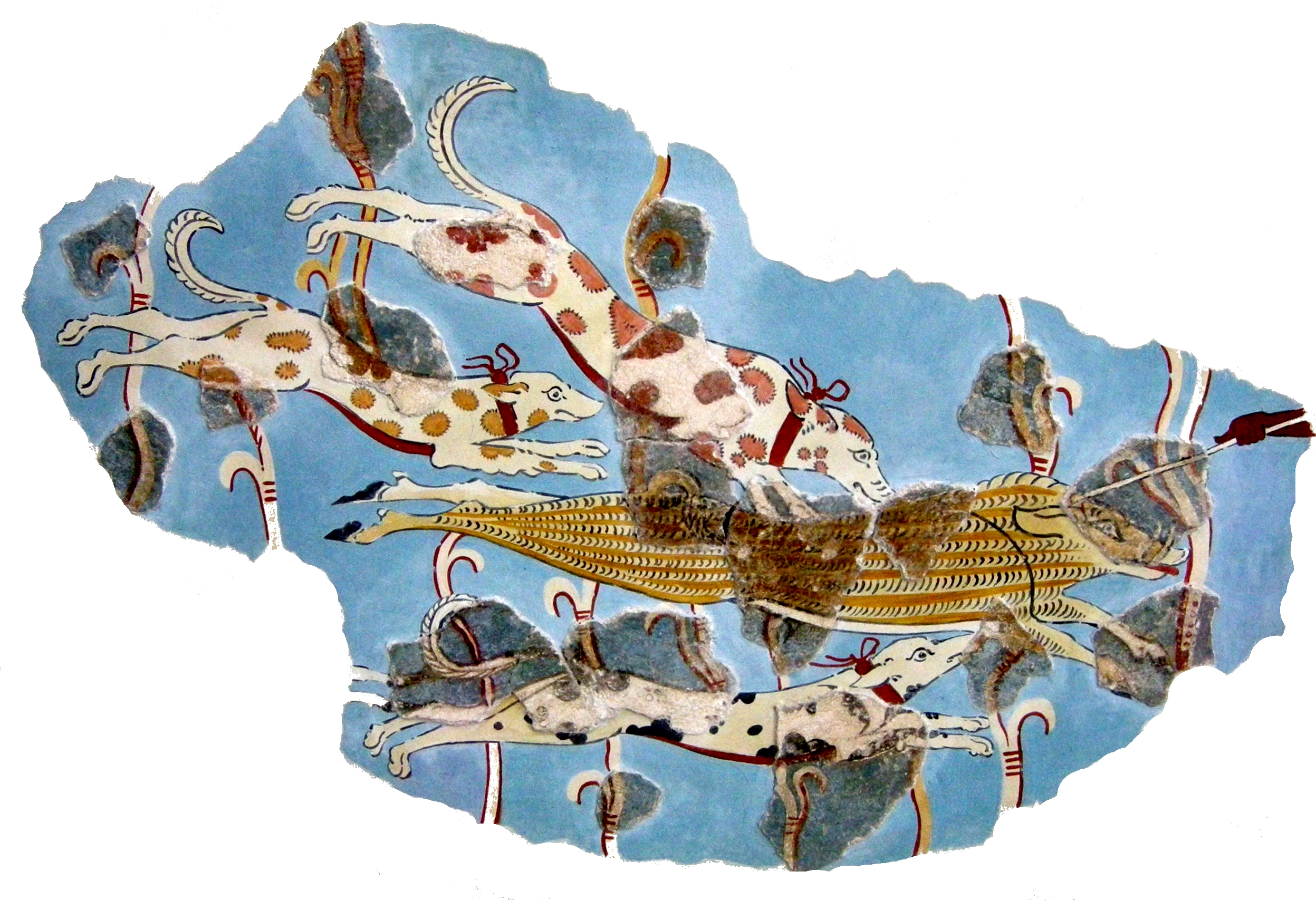 Wall painting fragments with a representation of a wild boar hunt. From the later Tiryns palace. National Archaeological Museum, Athens.